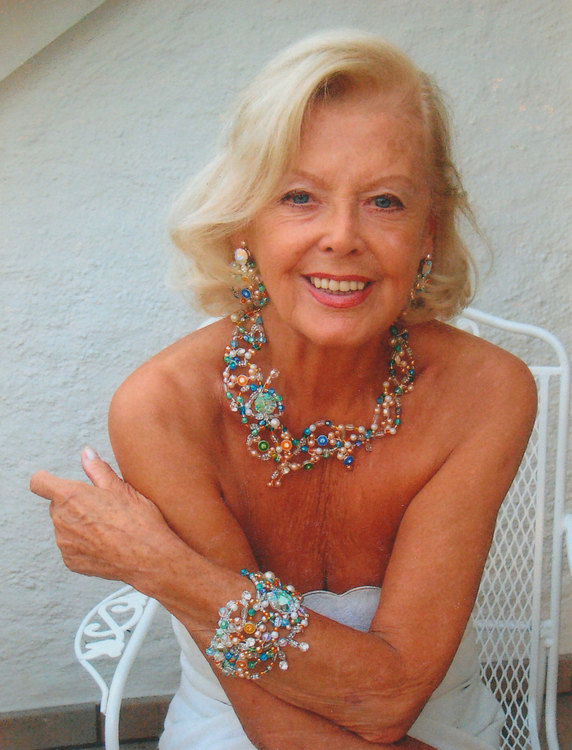 christel mattes